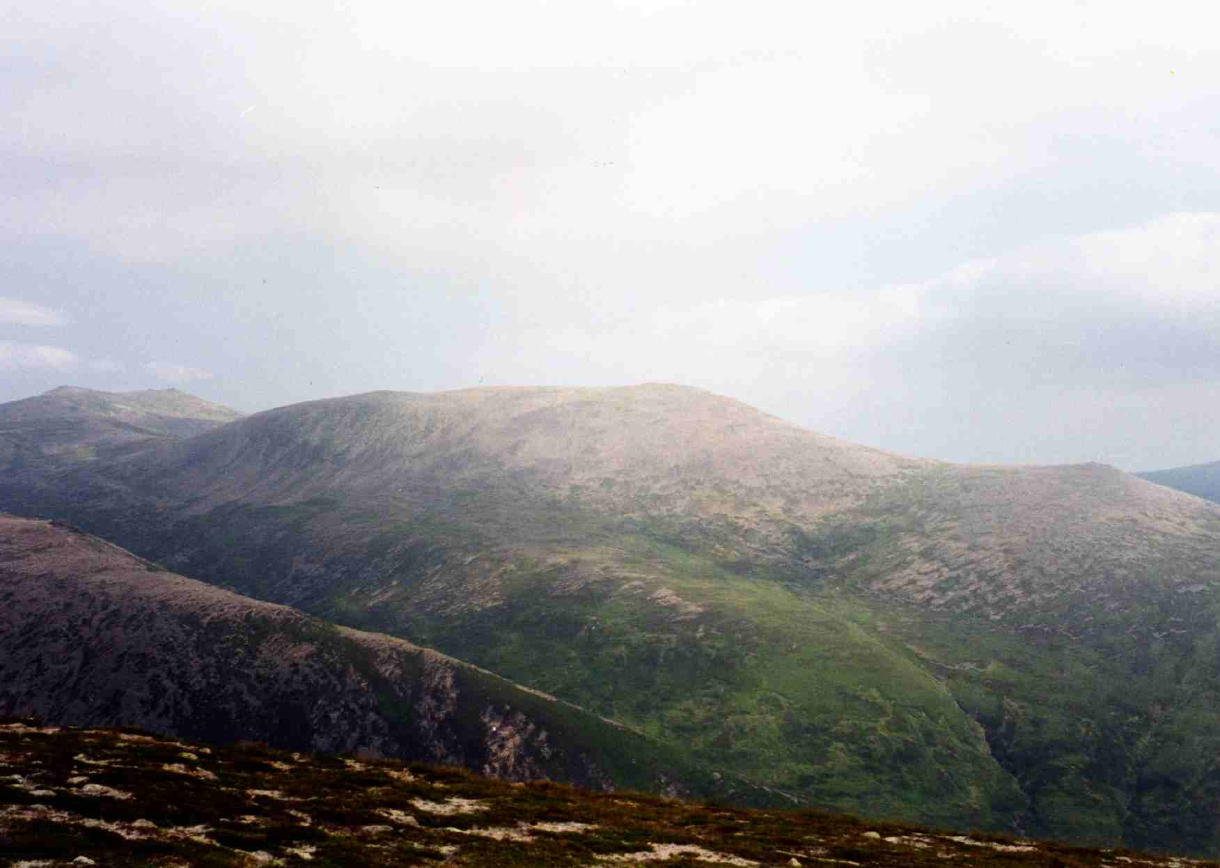 Personal photograph taken by Mick Knapton